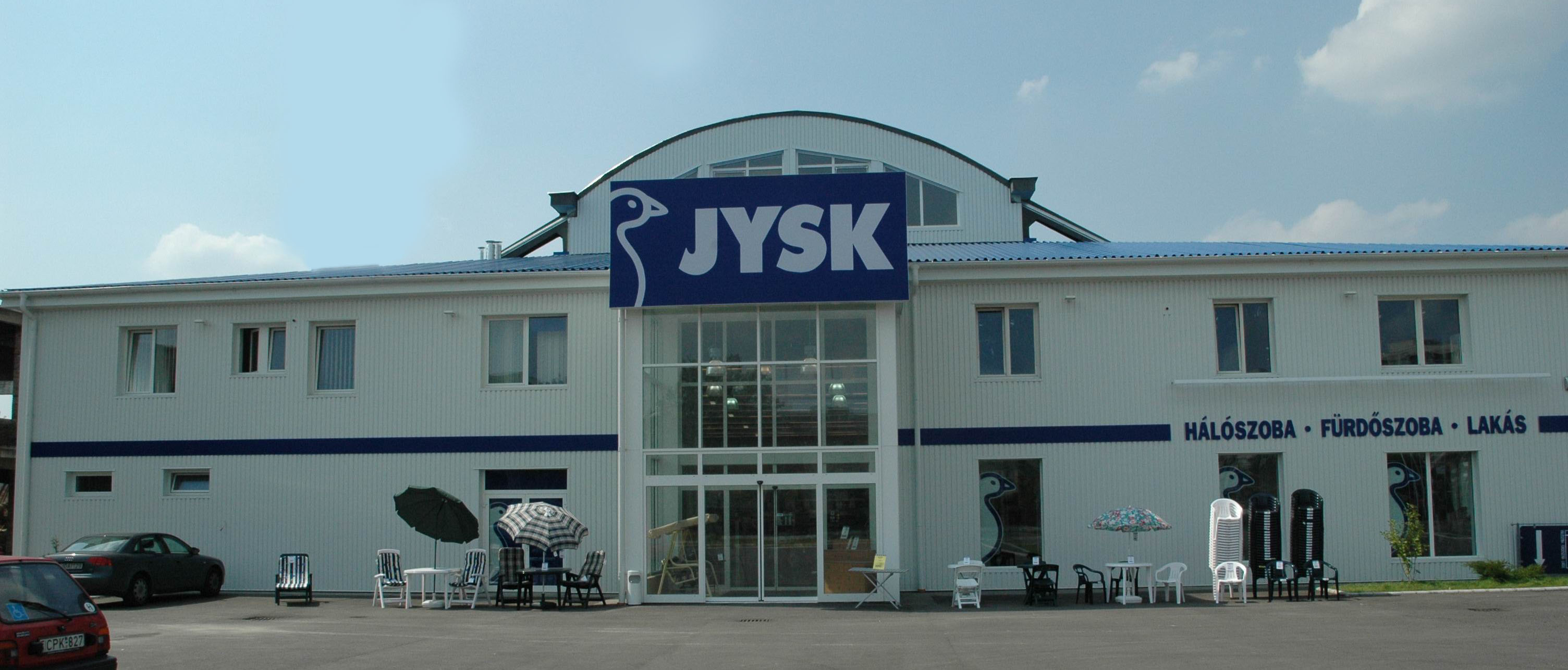 JYSK in Hungary